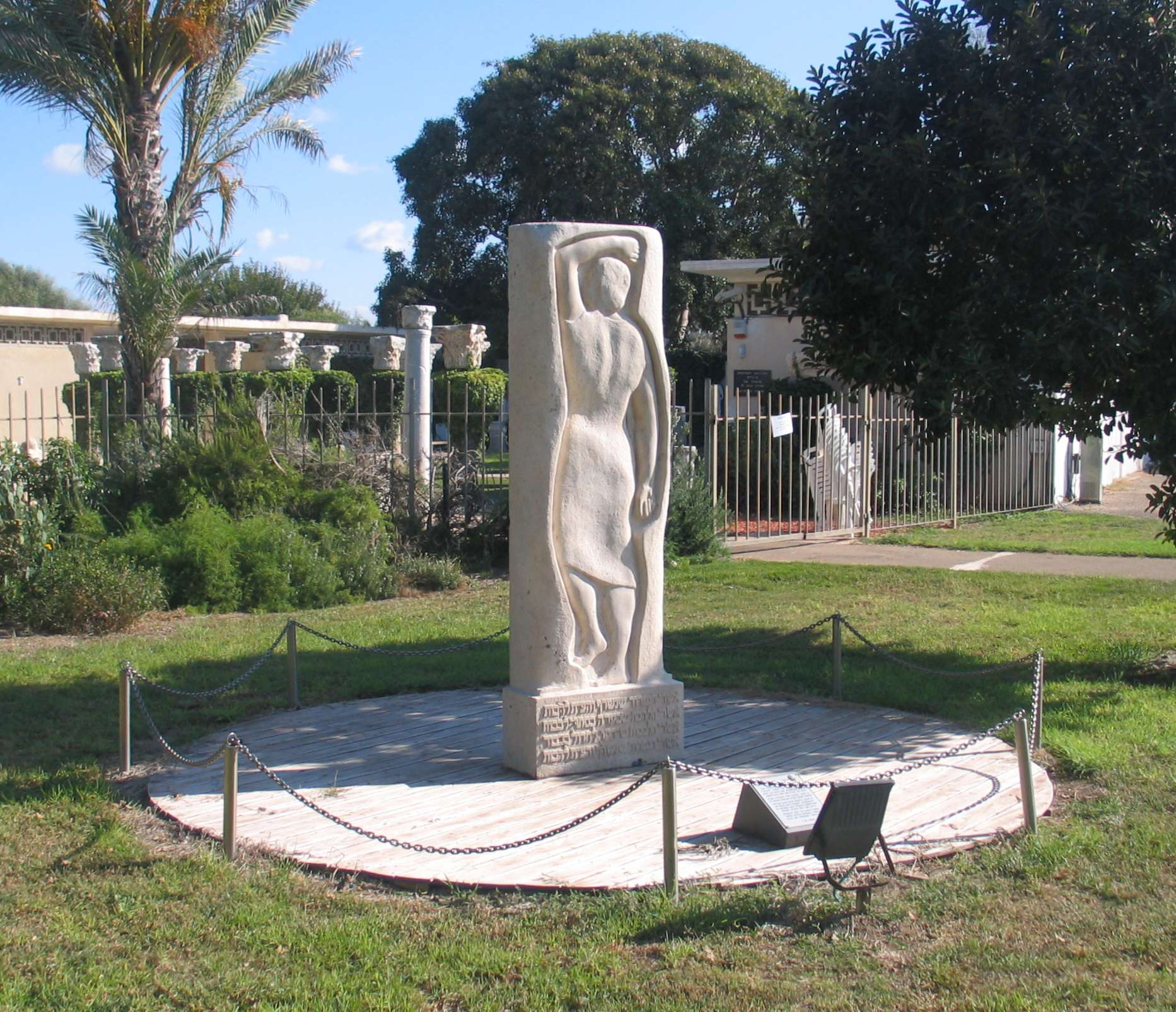 Hannah Szenes memorial in Sdot Yam, Israel.